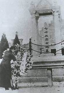 Soong Ching-ling at Huanghuagang Mausoleum of 72 Martyrs